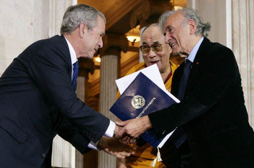 President George W. Bush, joined by The Dalai Lama, welcomes Nobel Peace Laureate Elie Wiesel, Wednesday, Oct. 17, 2007, to the ceremony at the U.S. Capitol in Washington, D.C., for the presentation of the Congressional Gold Medal to The Dalai Lama.